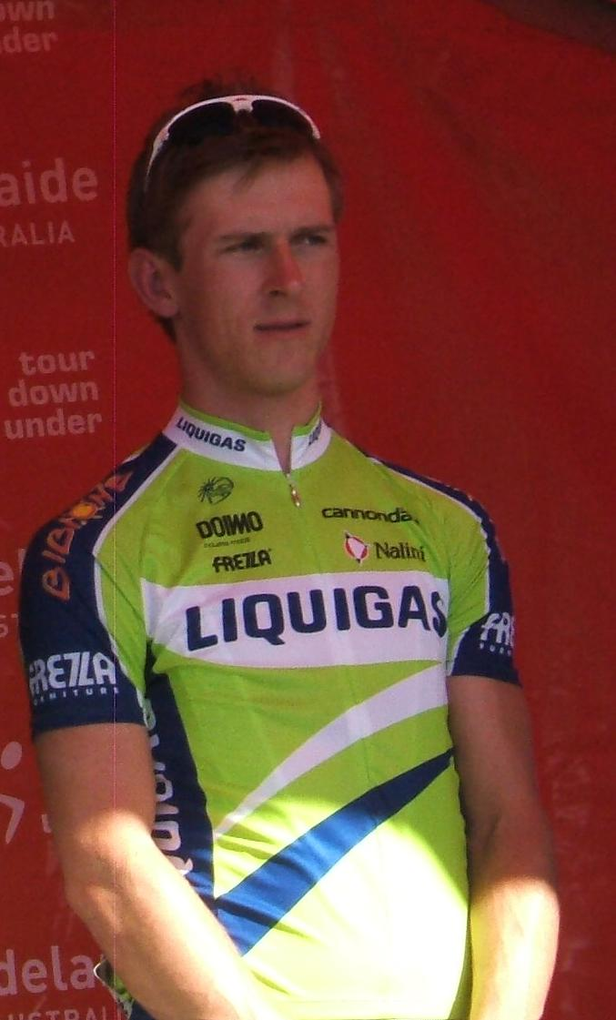 Named cyclist at the en:2009 Tour Down Under team presentation